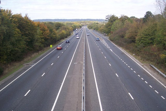 A21 Tonbridge Bypass leading to Sevenoaks This dual carriageway leads from Tonbridge to Sevenoaks. Seen from the footbridge near Barnett's Wood. On the dual carriageway on the left, is a turning into the Barnett's Wood services (toilet and picnic area).